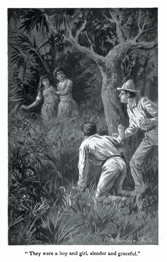 Illustration from the novel Typee by Herman Melville